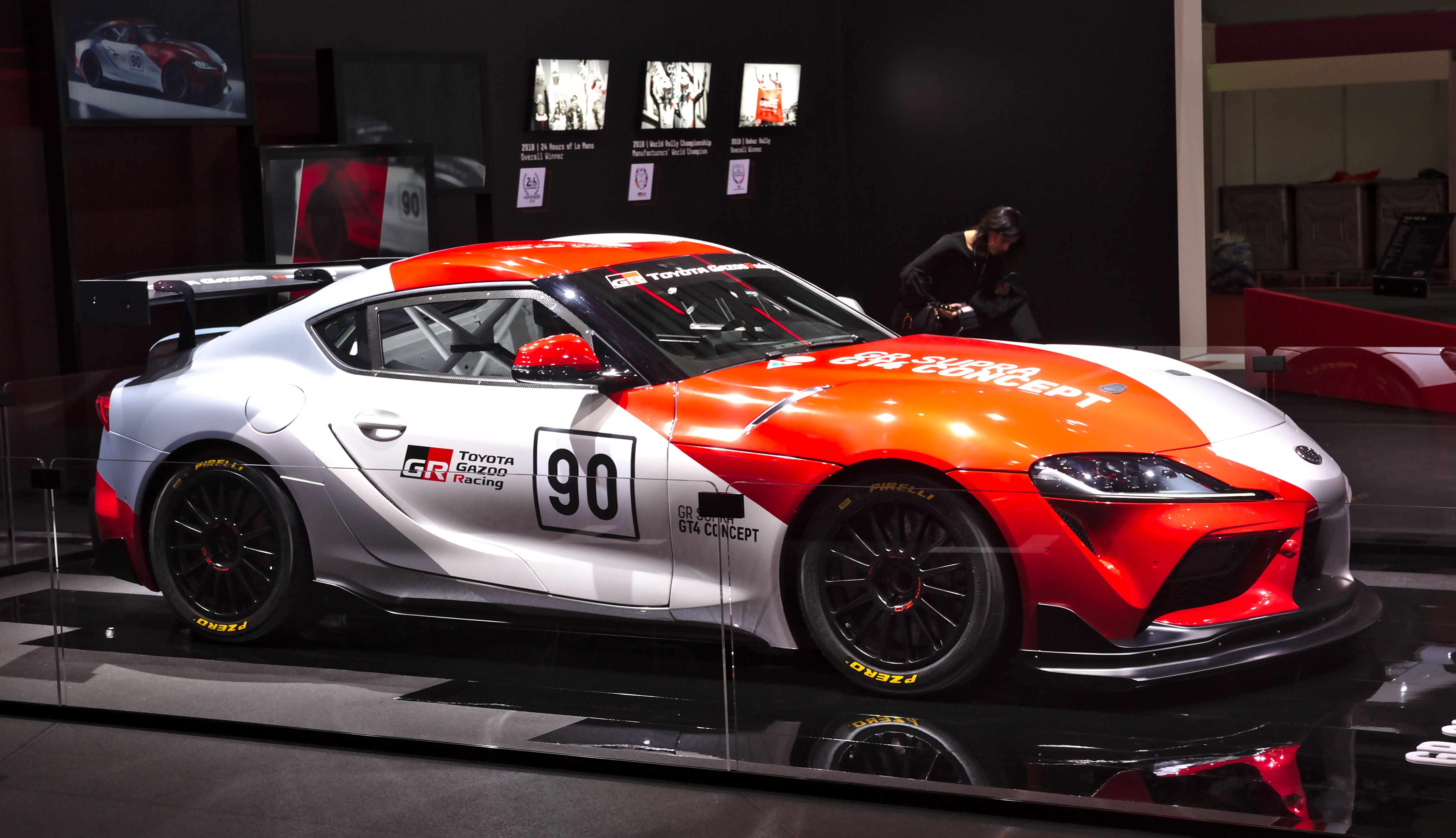 Toyota GR Supra GT4 Concept at Geneva Motor Show 2019